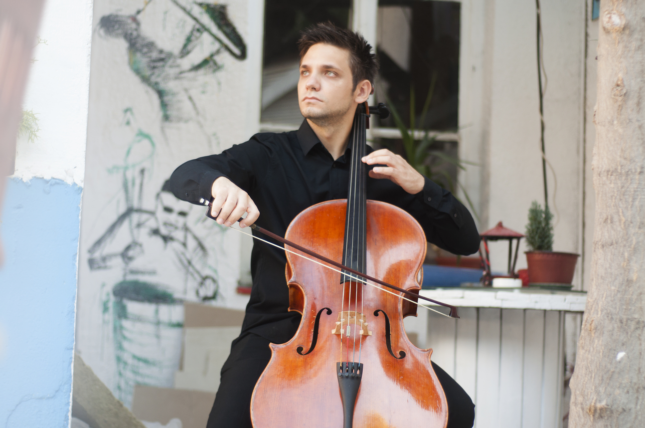 Nemanja Stanković, čelista